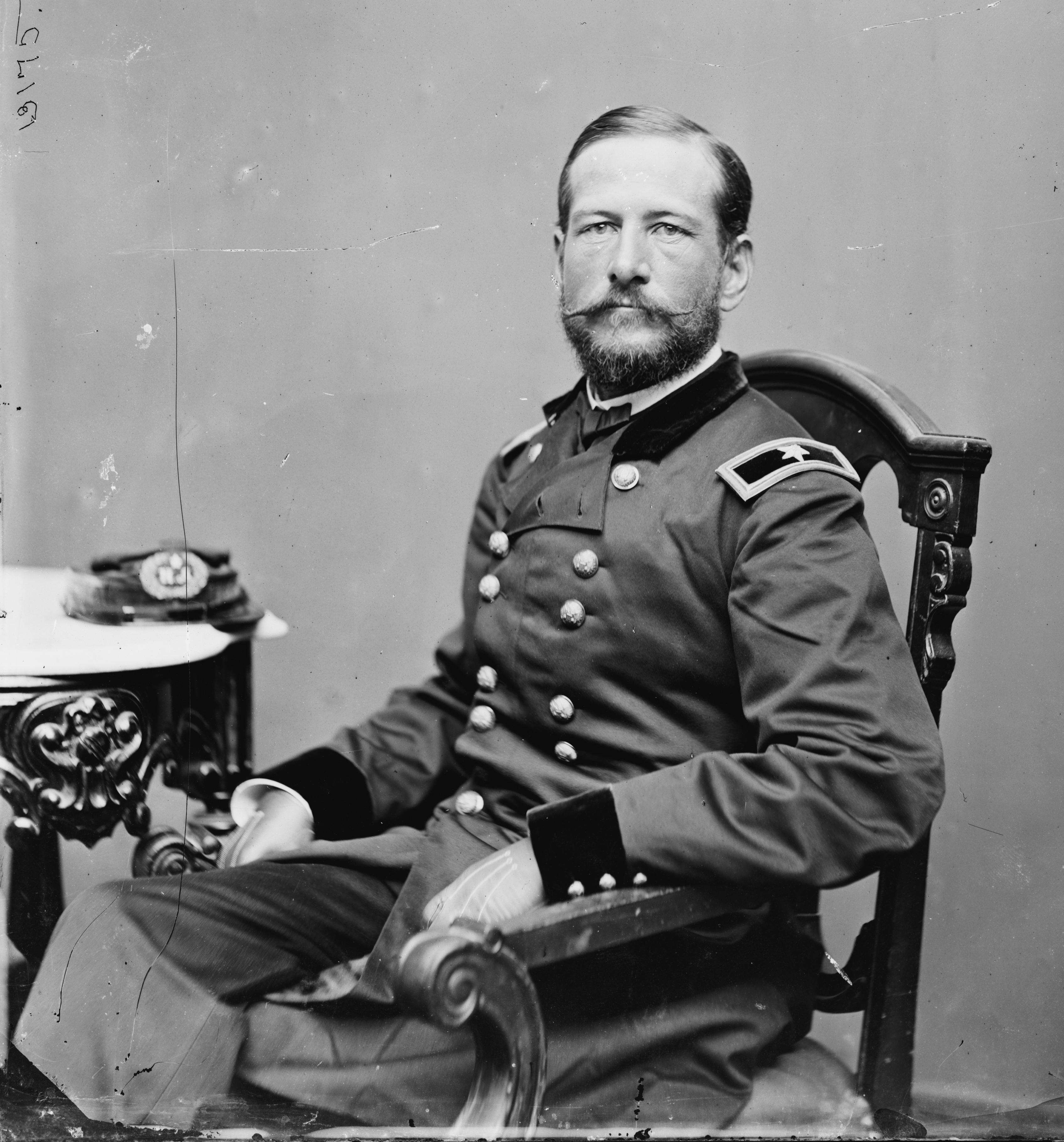 Alfred Pleasonton. Library of Congress description: "Gen. Alfred Pleasonton, U.S.A."